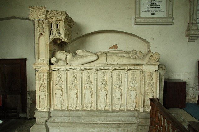 Tomb of Sir Richard Croft Tomb in St.Michael & All Angels' church SIR RICHARD CROFT, KNT Sheriff of Herefordshire 1471-72-77-86 Fought at Mortimer's Cross 1461, Tewkesbury 1471 MP for Herefordshire 1477 Governor of Ludlow Castle Created Knight-Banneret after the Battle of Stoke 1487 Died July 29 1509 Also of ELEANOR his wife Daughter of Sir Edmund Cornewall Baron of Burford Salop Widow of Sir Hugh Mortimer of Kyre